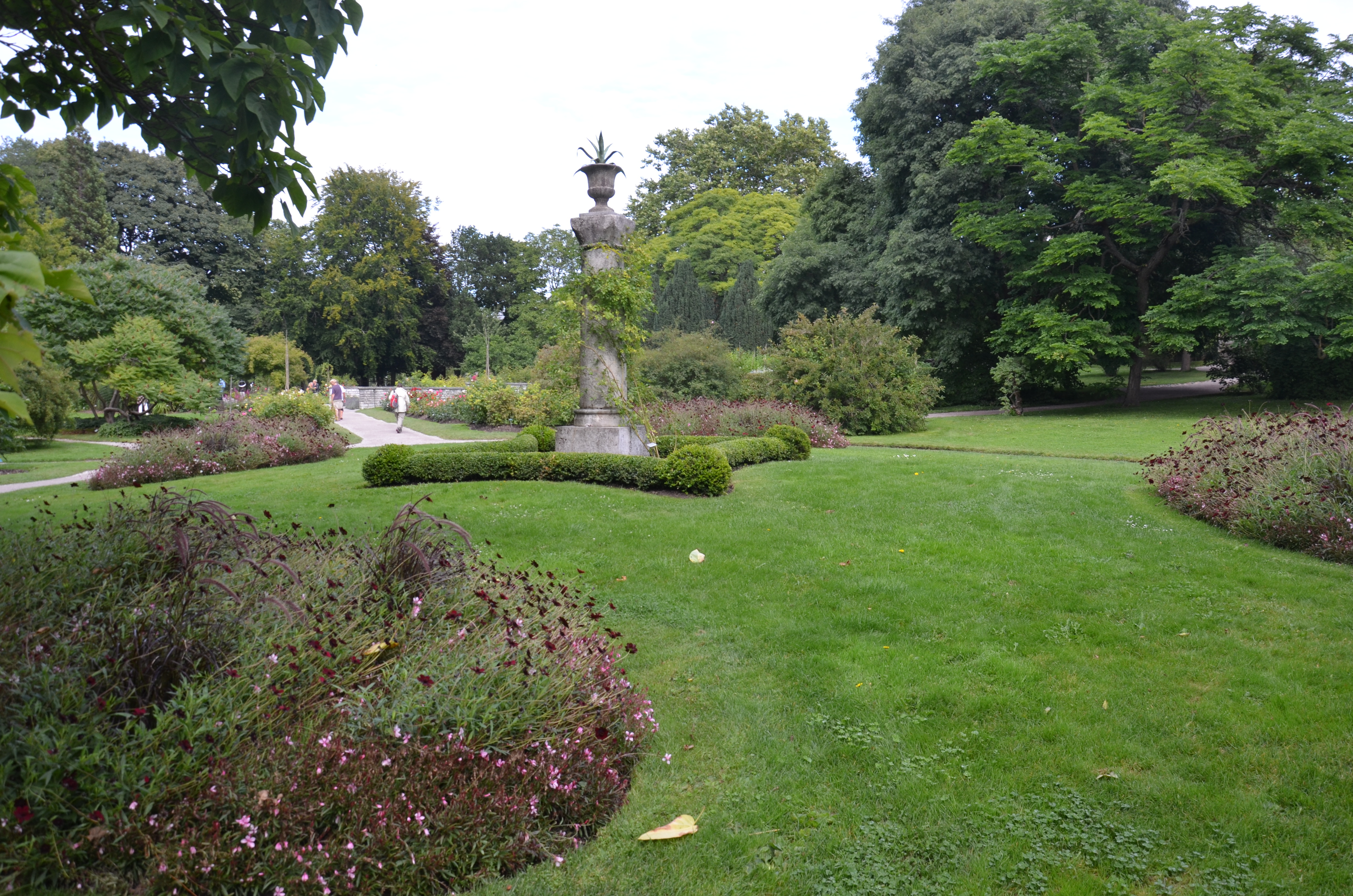 Visby, DBWs botaniska trädgård